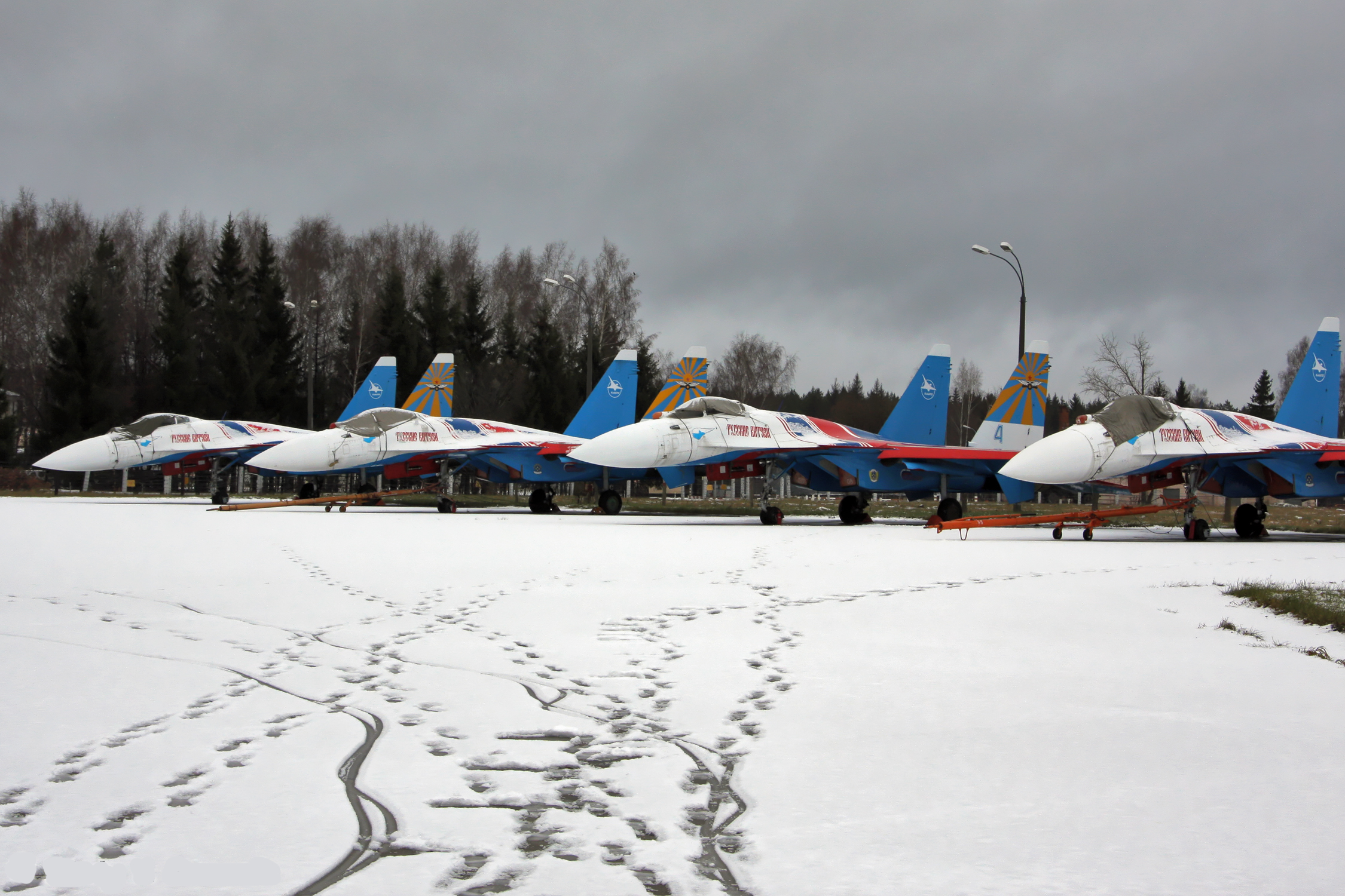 Sukhoi Su-35 multirole fighters of Russian Knights aerobatics team